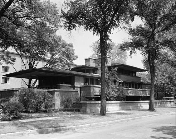 Frederick C. Robie House, Chicago, Illinois - south facade from south west.